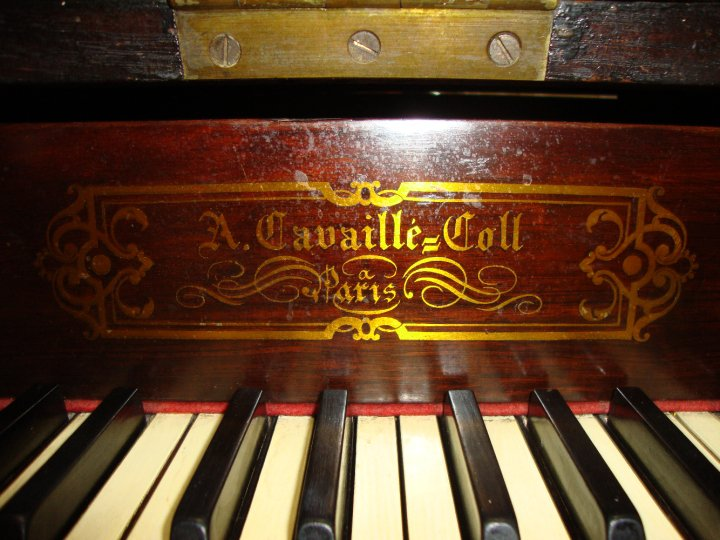 Pipe organ console with inscription: A. Cavaillé=Coll Paris.